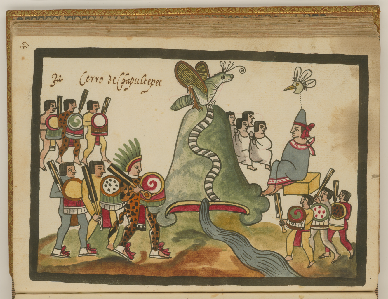 The Tovar Codex, attributed to the 16th-century Mexican Jesuit Juan de Tovar, contains detailed information about the rites and ceremonies of the Aztecs (also known as Mexica). The codex is illustrated with 51 full-page paintings in watercolor. Strongly influenced by pre-contact pictographic manuscripts, the paintings are of exceptional artistic quality. The manuscript is divided into three sections. The first section is a history of the travels of the Aztecs prior to the arrival of the Spanish. The second section, an illustrated history of the Aztecs, forms the main body of the manuscript. The third section contains the Tovar calendar. This illustration, from the second section, depicts the Cerro de Chapultépec (Hill of the Grasshoppers). An emperor on a throne sits before the hill, which is represented with a winding road and a spring. Military features shown include soldiers with war clubs and shields from three armies, feathered headdresses, and jaguar skin. Huitziláihuitl (or Huitzilihuitl, reigned 1395–1417), the Aztec emperor recognizable by his symbol of the hummingbird with white feathers, sits on his throne at right. Above him are four figures representing the four ancestral tribes of the Aztecs. Three armies converge to annihilate them, the Tepanec of Azcapotzalco, the Chalco (who captured and killed Huitziláihuitl), and the Xochimilca. The chief of one army wears the jaguar skin of a warrior caste and carries a shield with the symbol of the Mitla (the center of Zapotec ceremonies). Armies; Aztecs; Battles; Codex; Huitzilihuitl, flourished 1395–1417; Indians of Mexico; Indigenous peoples; Kings and rulers; Mesoamerica; Soldiers; Tovar Codex